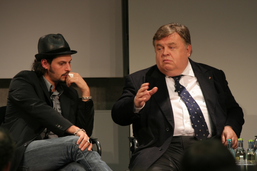 It's the room Studio B during the Medienforum 2008 of the Fachhochschule Mittweida. Close capture of Prof Dr Helmut Thoma and Manuel Cortez at the panel "Tod der Fernsehkultur".